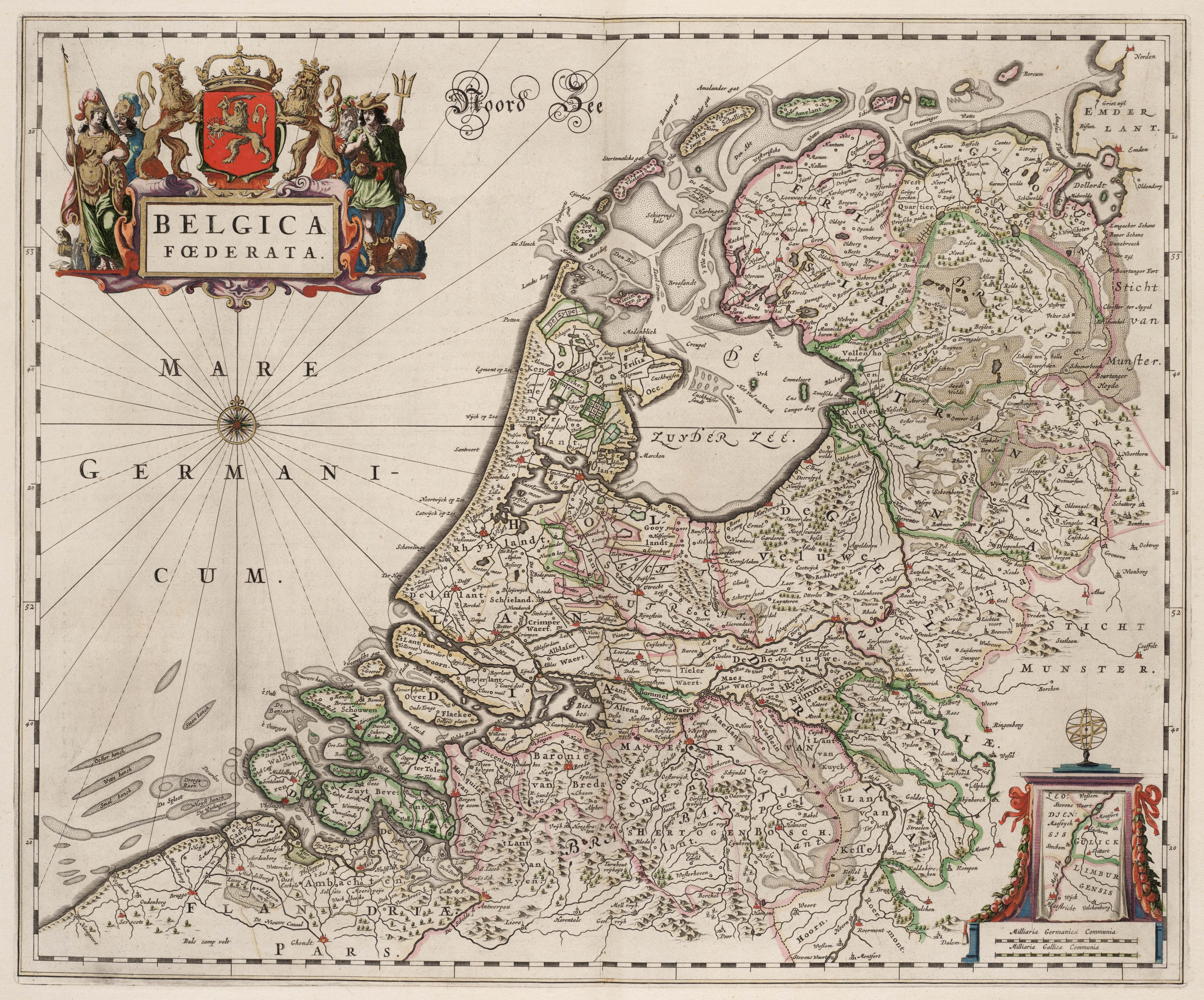 Old map of the Netherlands